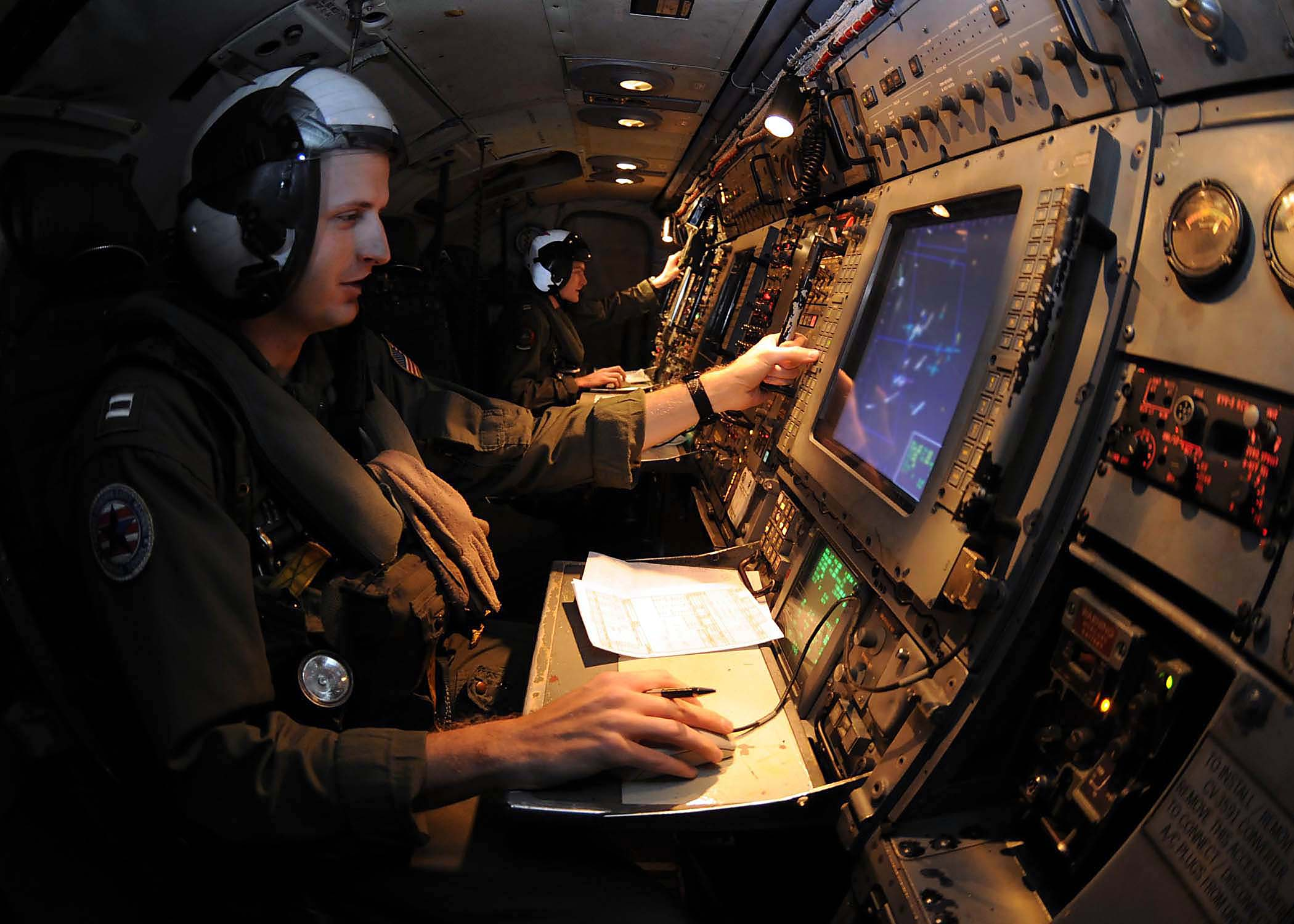 PACIFIC OCEAN (Nov. 11, 2008) Lt. Brett Whorley, left, and Lt. Andrew Leatherwood, assigned to Airborne Early Warning Squadron (VAW) 115, the "Liberty Bells", conduct airborne early warning and strike group coordination from an E-2C Hawkeye between various Carrier Air Wing Five (CVW 5) squadrons assigned to the aircraft carrier USS George Washington (CVN 73). U.S. Navy photo by Mass Communication Specialist 2nd Class Clifford L. H. Davis (Released)